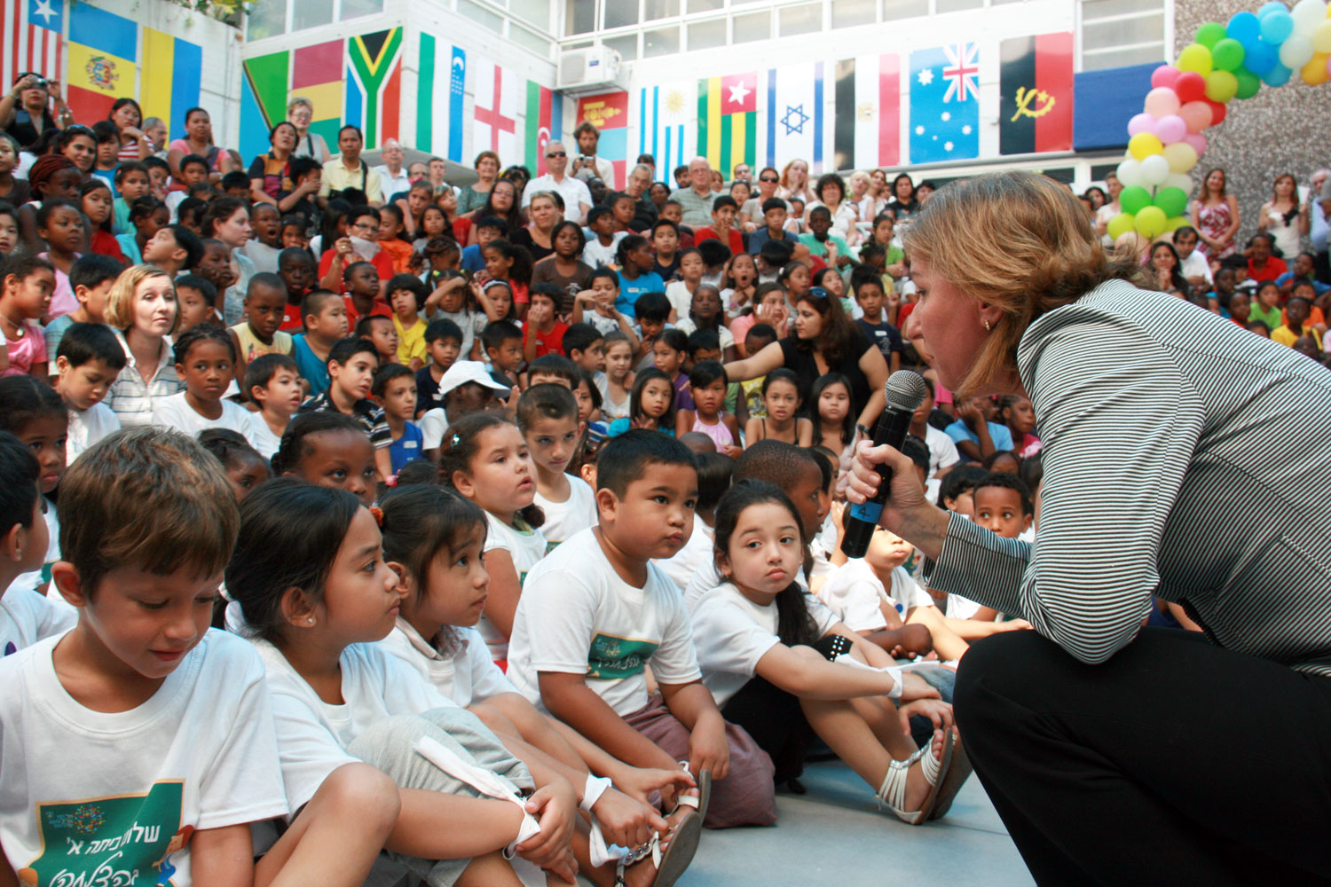 Leader of the Opposition Tzipi School during year opening day at Biyalik Rogazin school